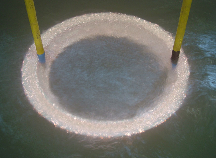 A photograph of a part (a racing yacht winch drum) undergoing plasma electrolytic oxidation. The two vertical rods, wrapped in yellow insulation, serve as supports and provide the electrical connection of the workpiece to the power supply. The surface of the workpiece is scintillating with myriad orange discharges. The surface of the electrolyte is disturbed both by coolant re-circulation and by gas evolution from the surface of the workpiece.